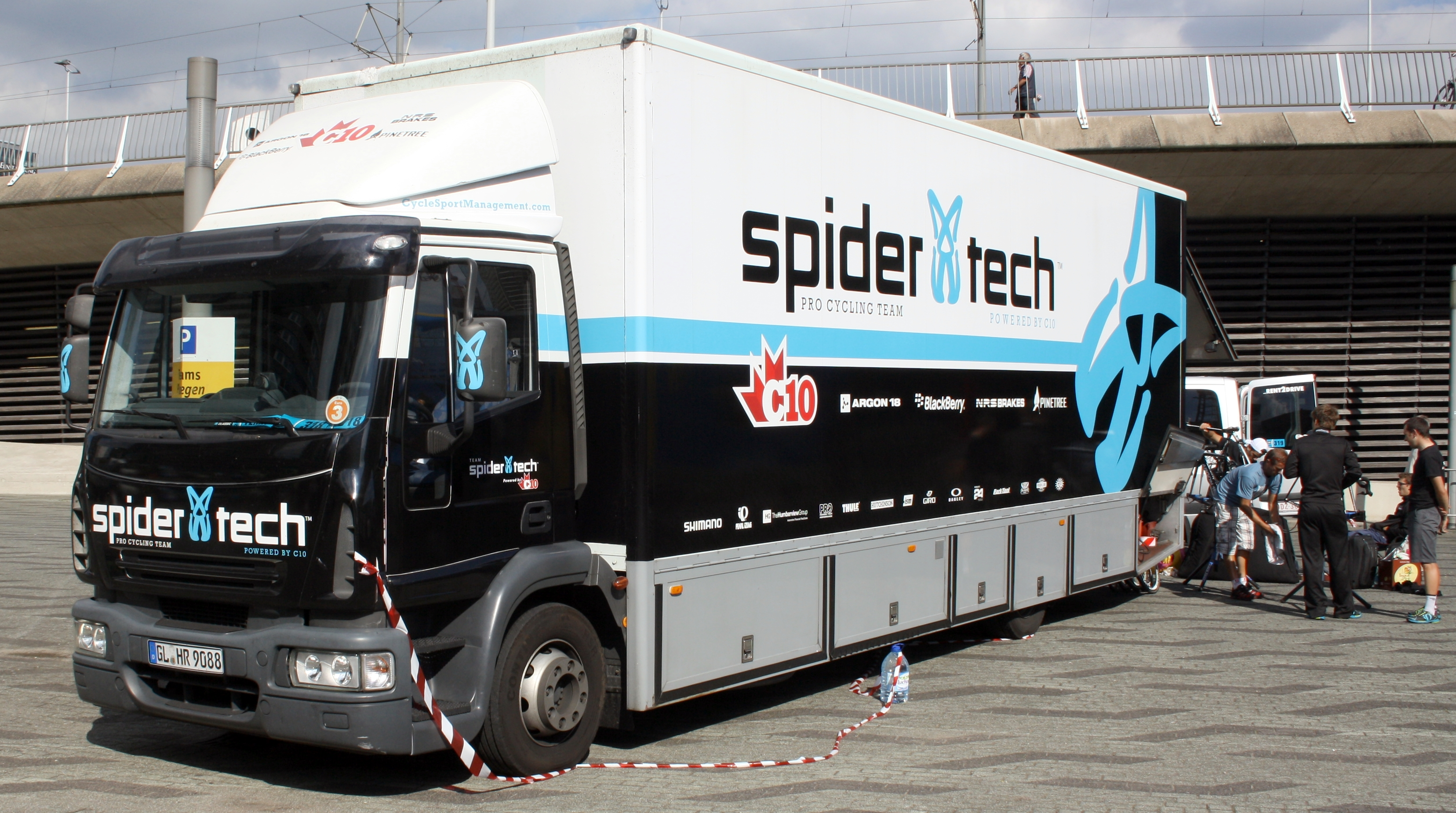 Spidertech truck after the finish of the World Ports Classic 2012 in Rotterdam